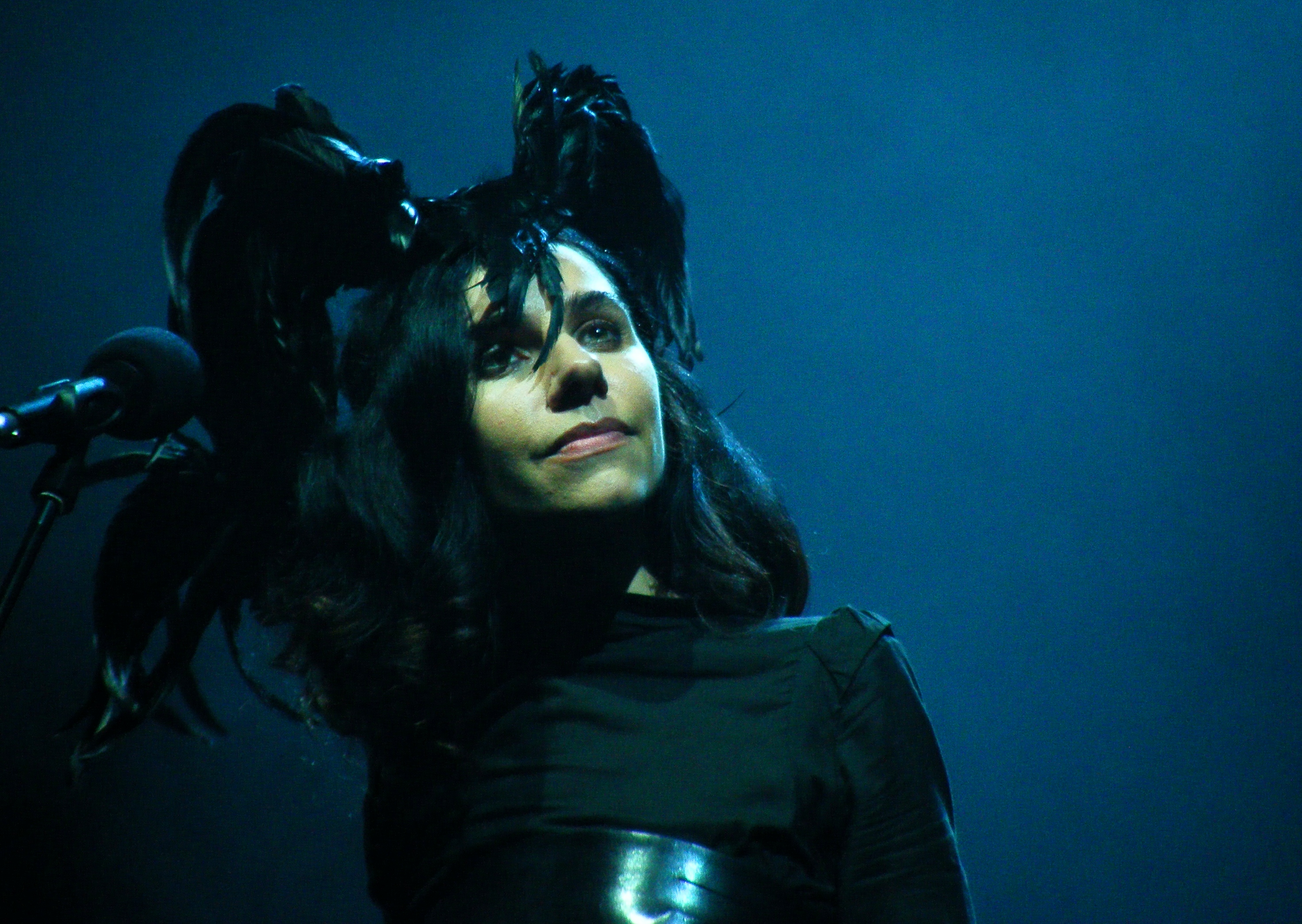 PJ Harvey at the O2 Apollo, Manchester, on Thursday the 8th of September 2011